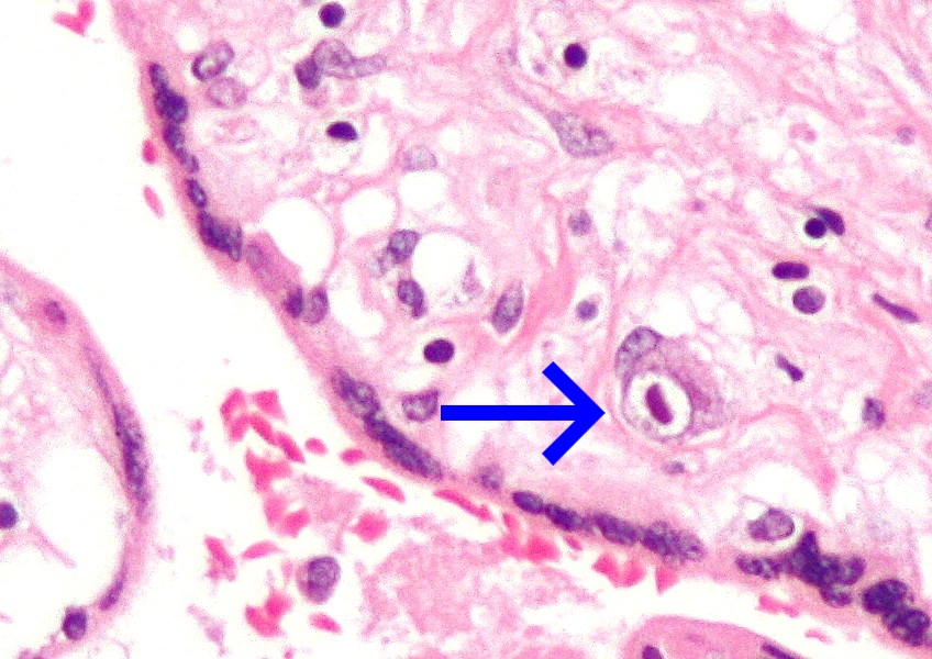 Micrograph of cytomegalovirus (CMV) placentitis. H&E stain. CMV is a TORCH infection. Compared to chorioamnionitis, TORCH infection are fairly uncommon. They may result in an abortion (miscarriage). The villi in the image have marked inflammation that is predominately lymphocytic. A characteristic CMV cell is seen right of centre in the image. The red blood cells surrounding the chorionic villi are maternal. Related images Field #1. Close-up of Field #1 - shows the characteristic nucleus Field #2. Close-up of Field #2 - shows the characteristic nucleus